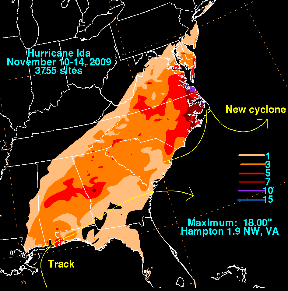 Rainfall produced by Hurricane Ida during November 2009.